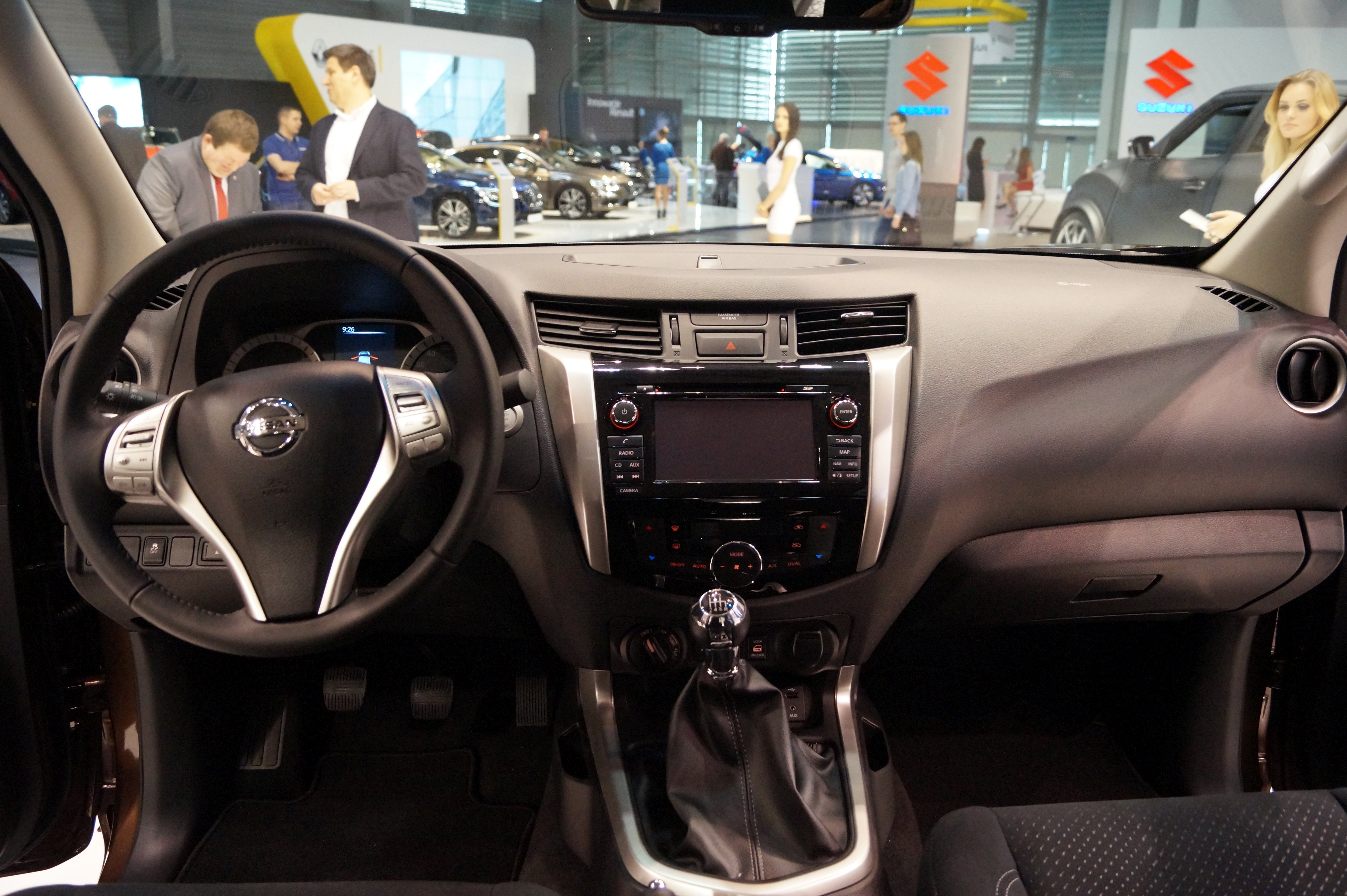 The making of this document was supported by Wikimedia Polska Association, within Wikigrant no. WG 2016-10. Wnętrze Nissana Navara na Motor Show Poznań 2016